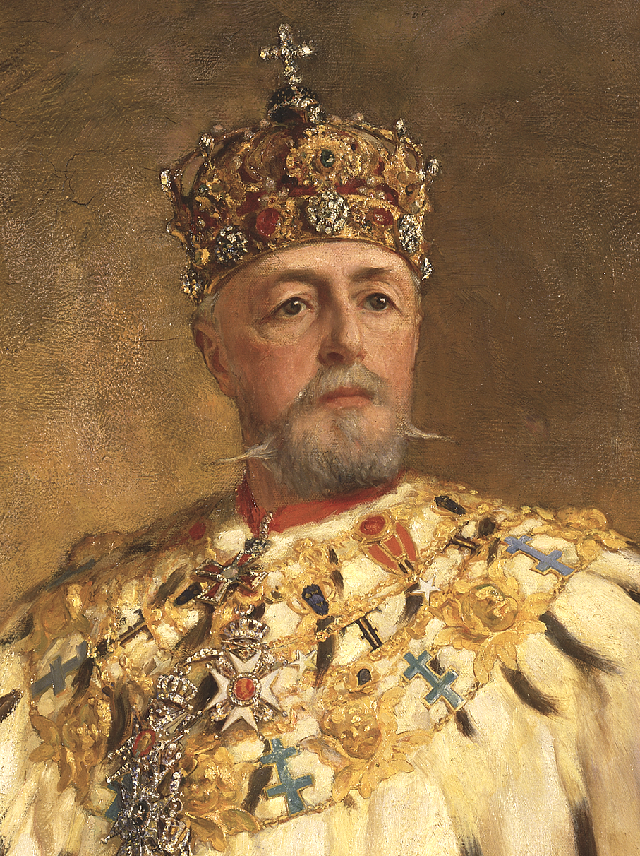 "The brilliantly coloristic portrait of King Oskar II was painted by Oscar Björck for the royal silver jubilee – a last visual manifestation of royal power by divine right."